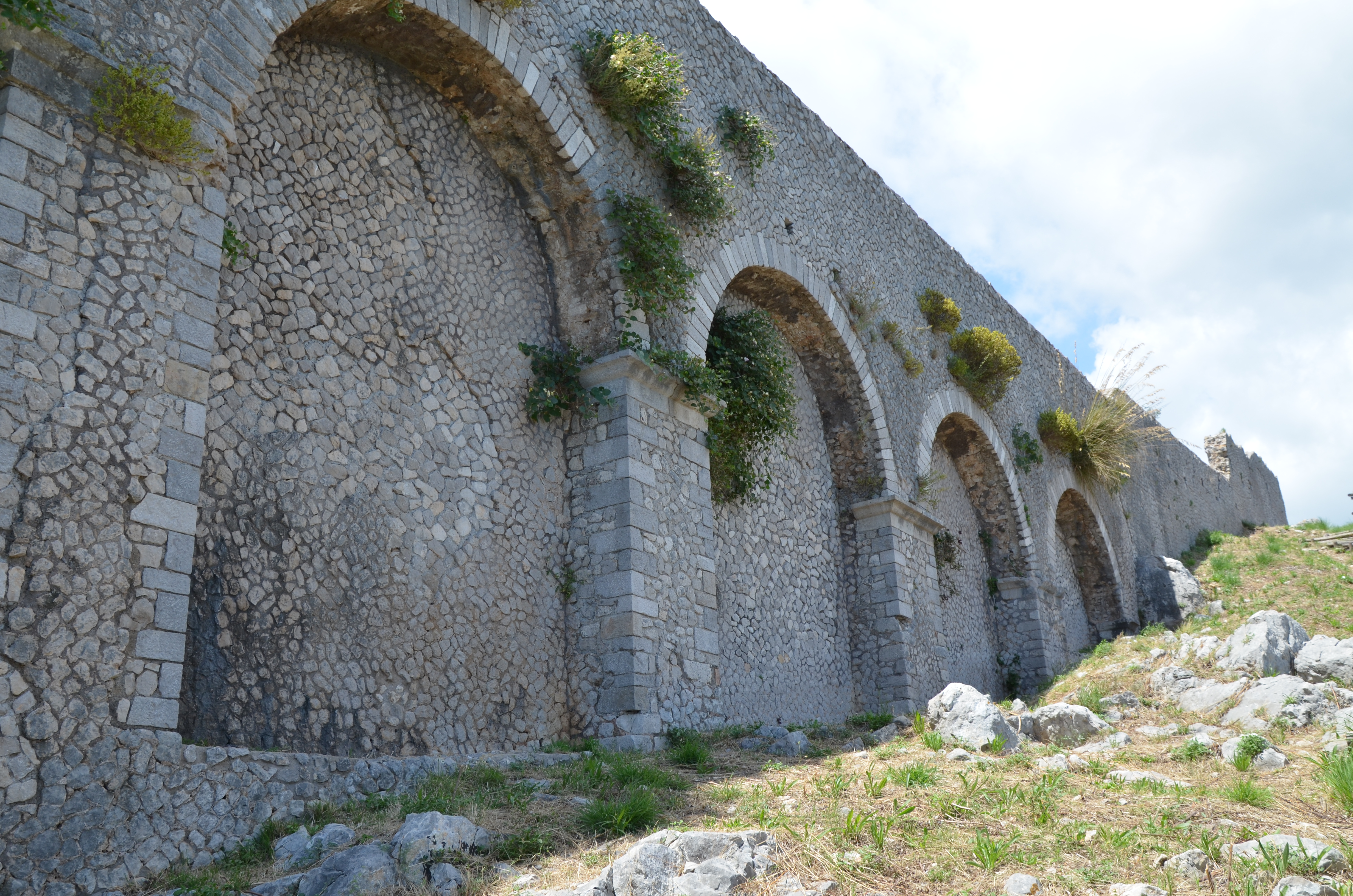 Temple of Jupiter Anxur, Terracina, Italy